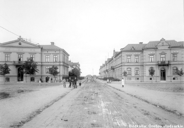 Buildings around Vasatorget, Örebro, Sweden